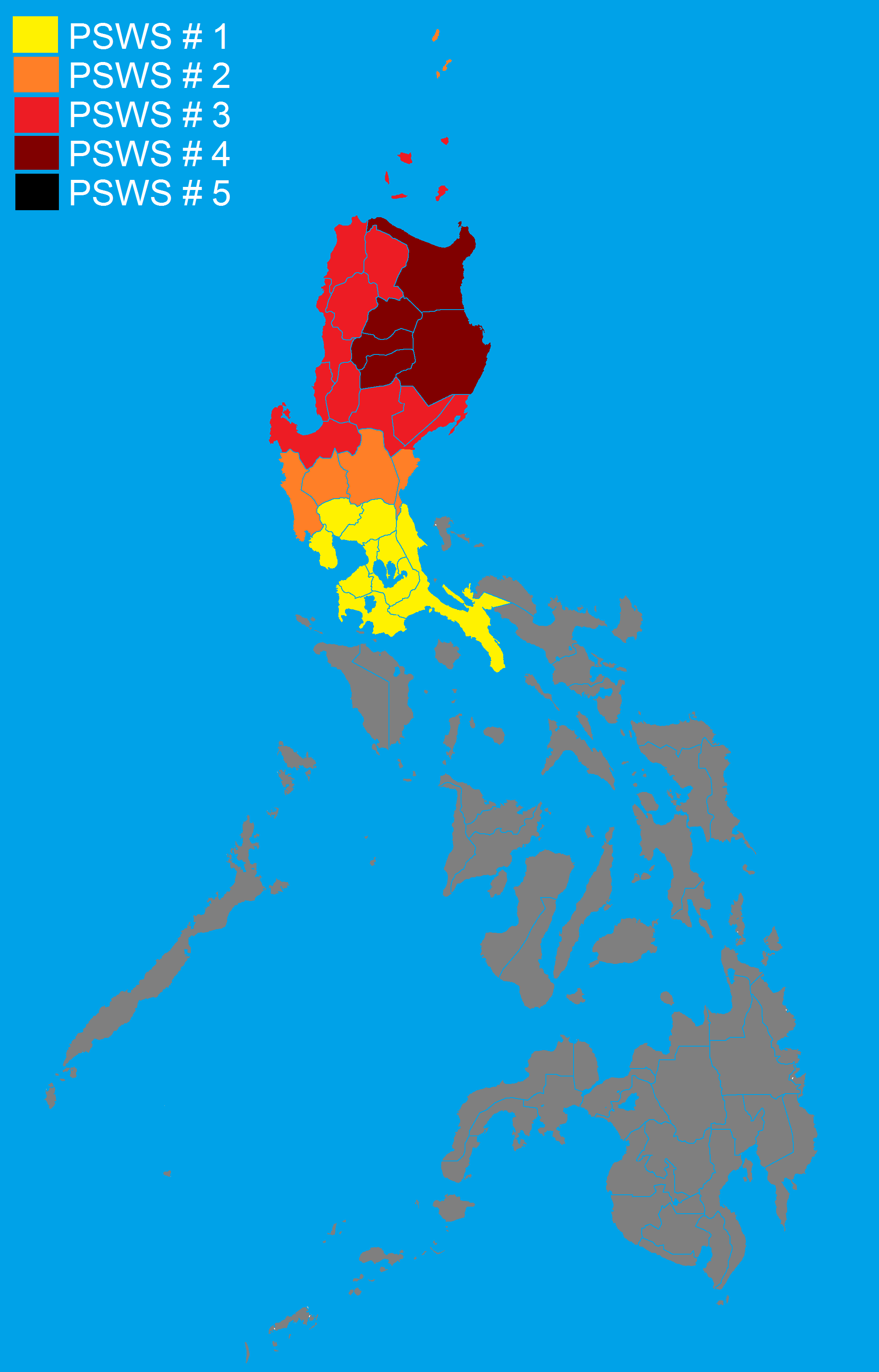 I created this using MS Paint.